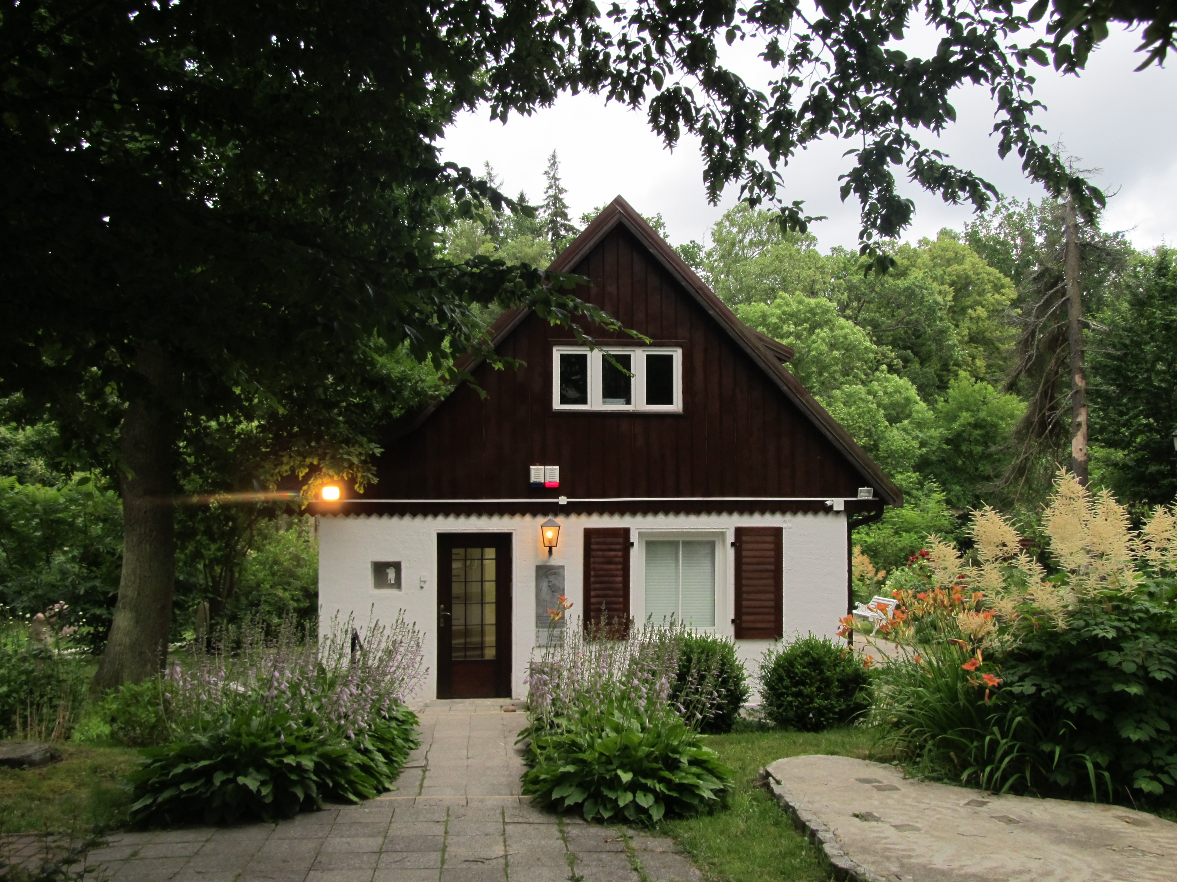 Hermann Brachert Museum, Otradnoje (Georgenswalde)